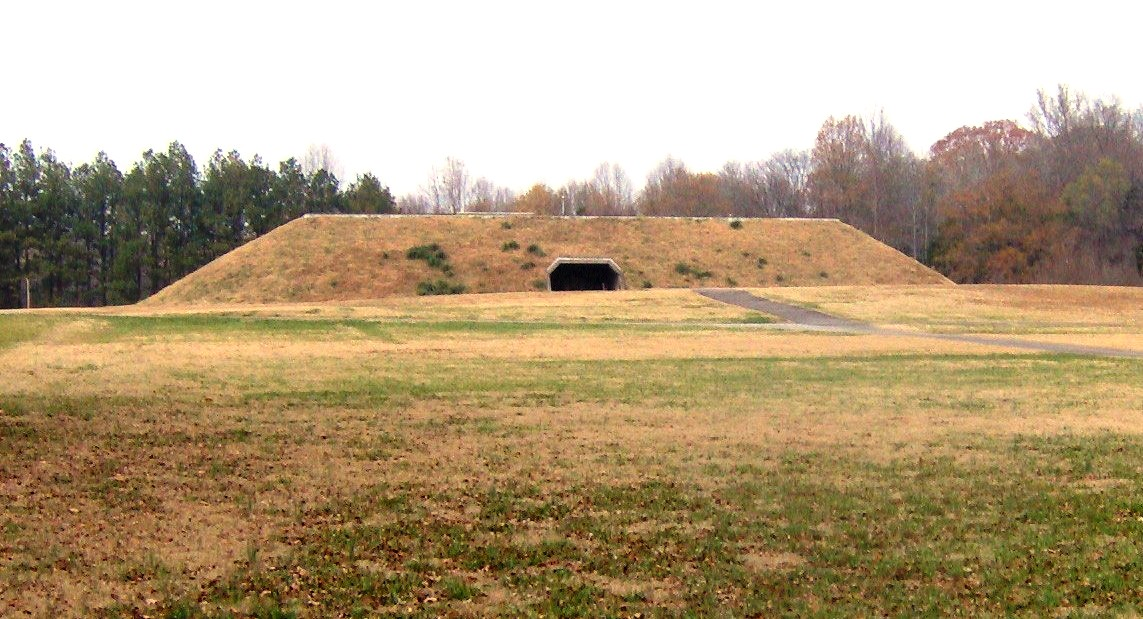 The museum at Pinson Mounds State Archaeological Park near Pinson, Tennessee, in the Southeastern United States. The museum is located in a replica of what one of the complex's platform mounds might have looked like.